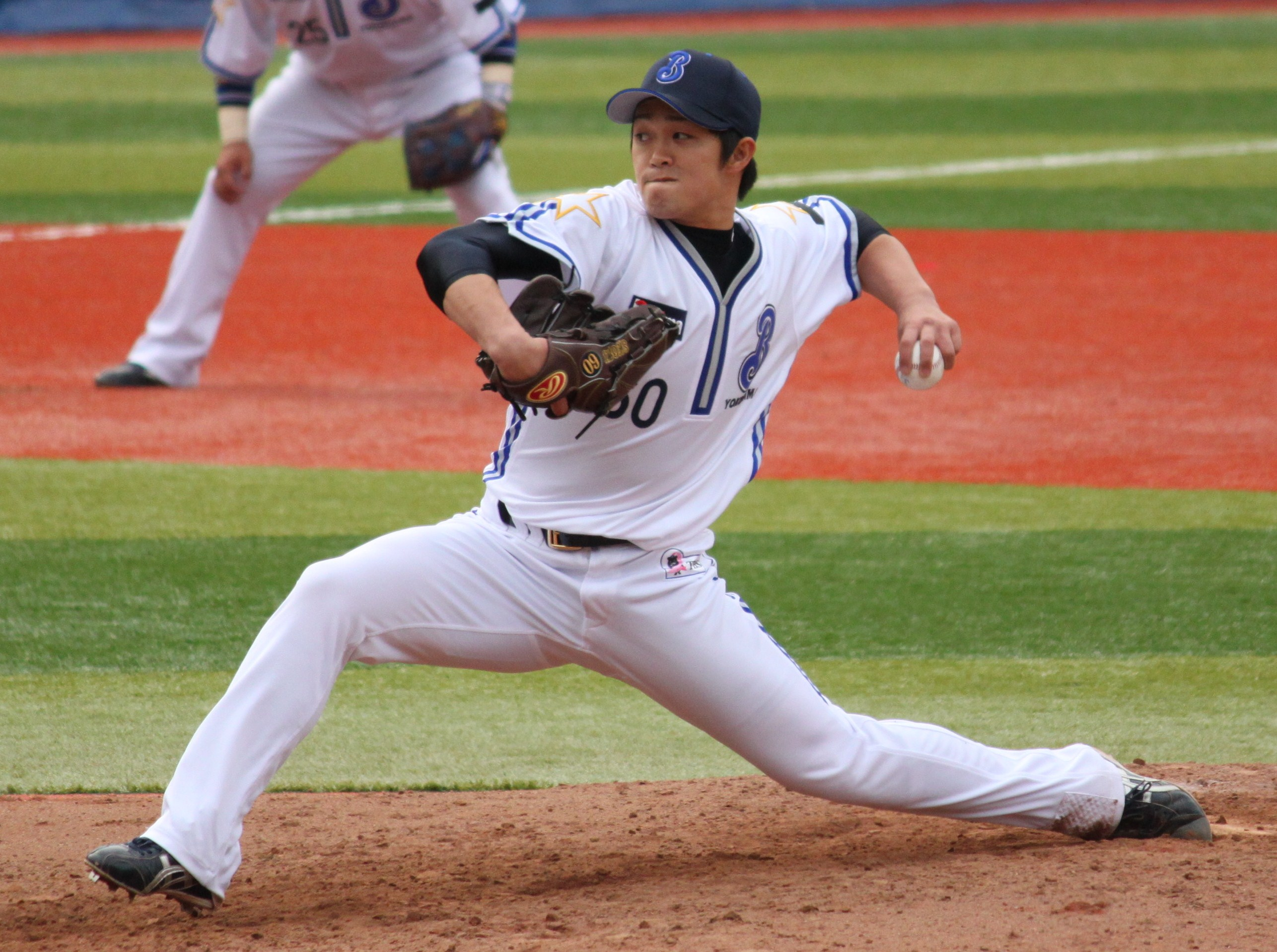 Shoma Sato, pitcher of the Yokohama BayStars, at Yokohama Stadium.